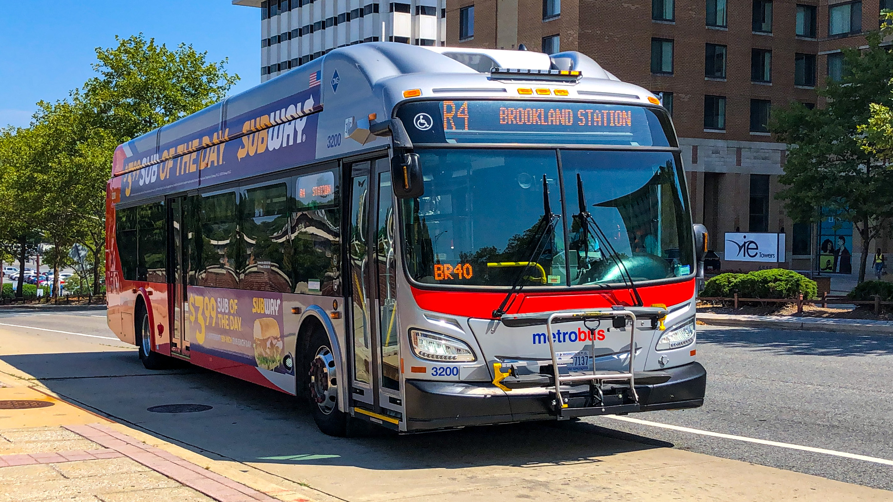 WMATA New Flyer XN40 3200 on Route R4